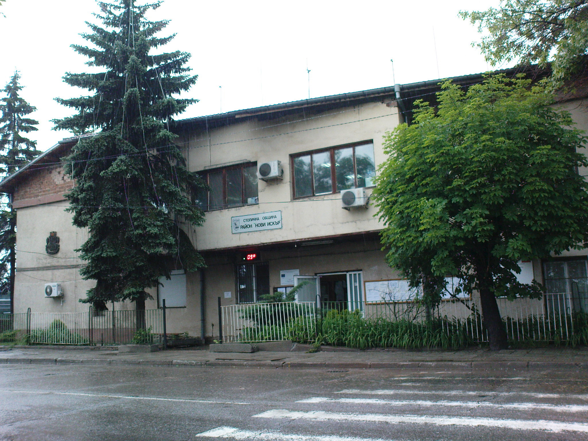 Novi Iskar rayon - the municipality building